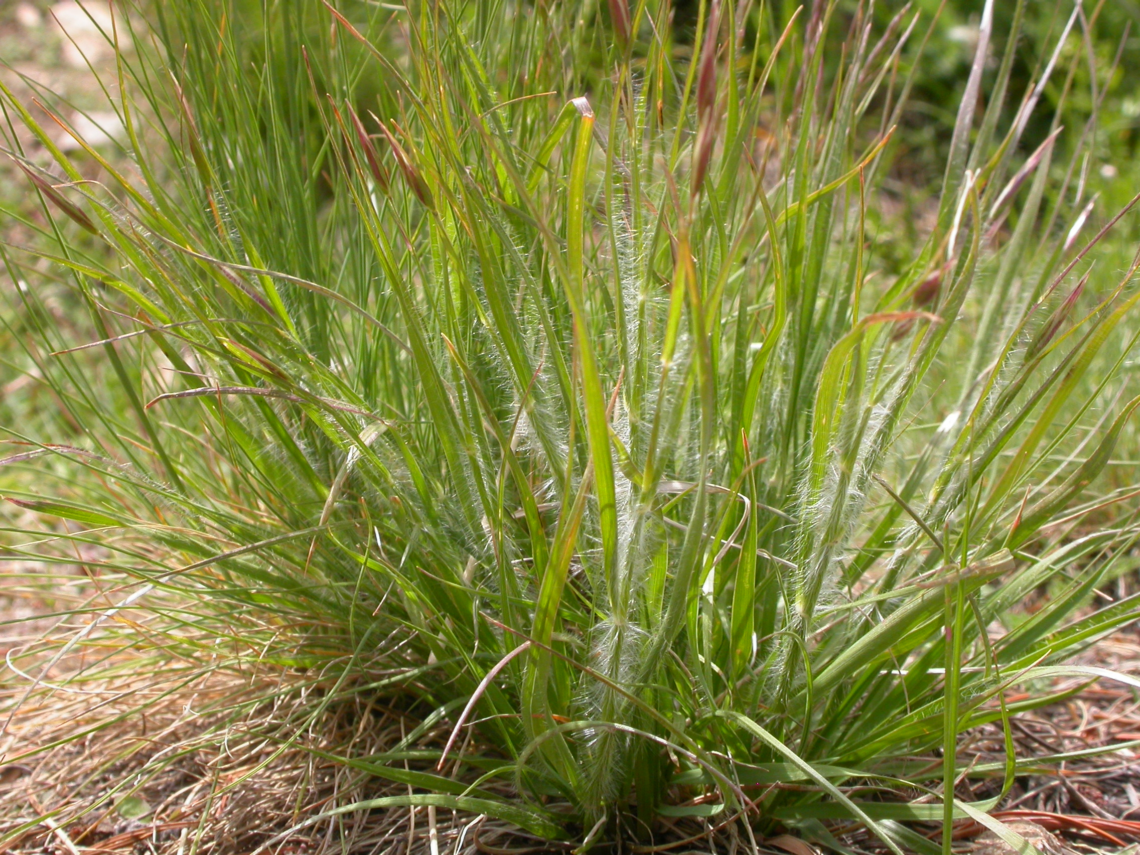 Danthonia unispicata in Carbon Co., Montana, USA